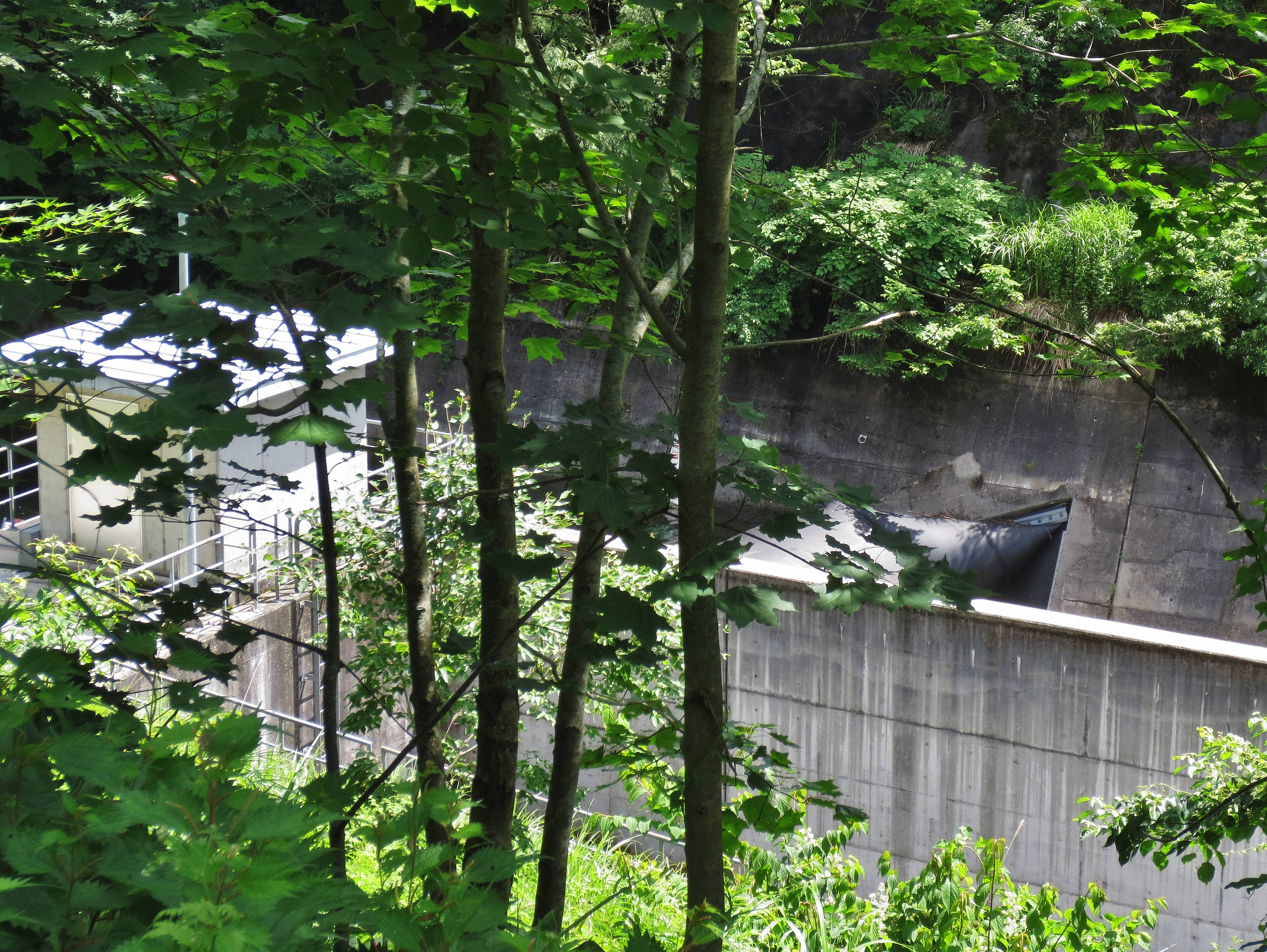 Yunokoya Weir.